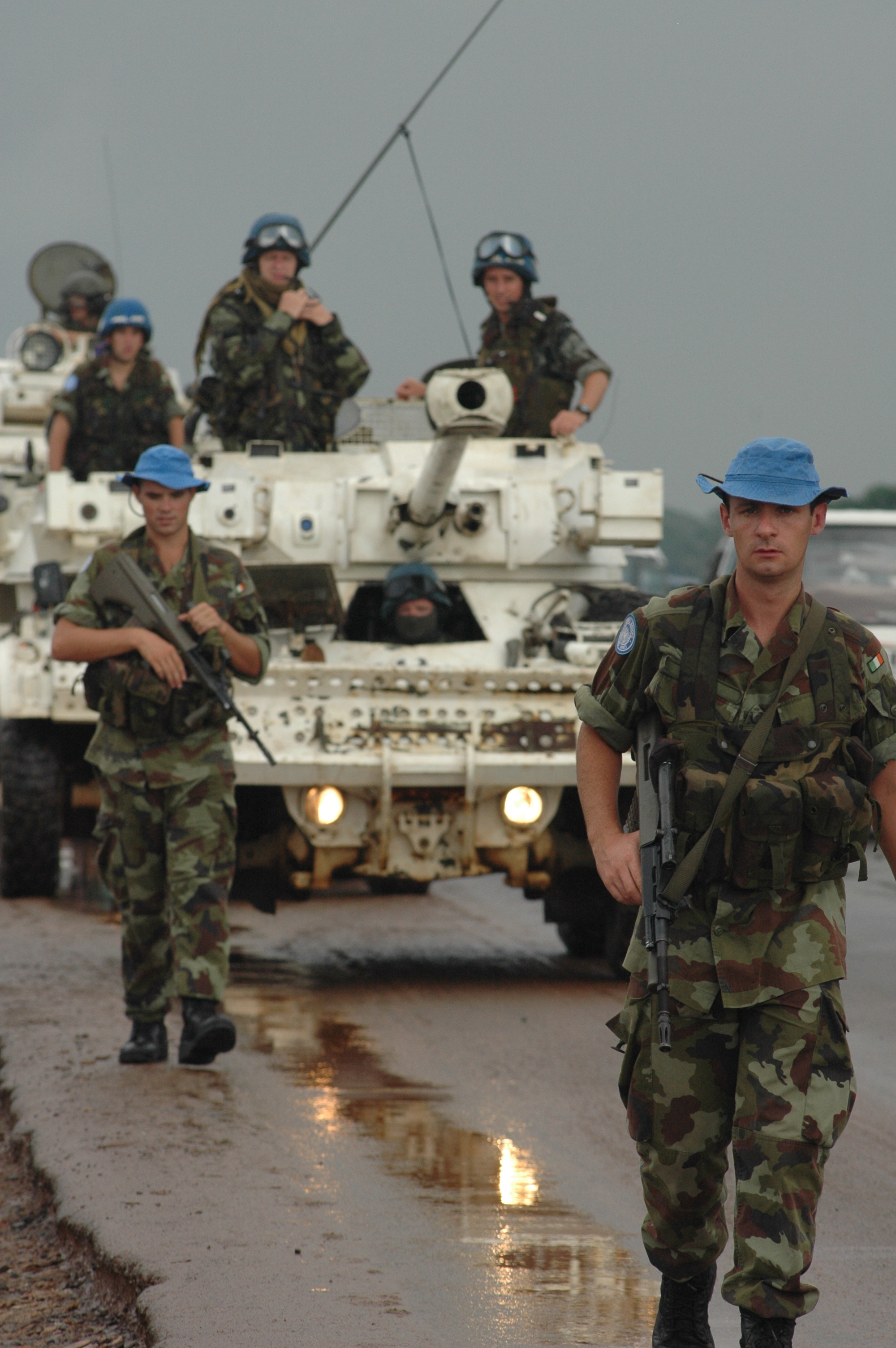 Irish army troops on patrol with Panhard AML-90 armoured cars while serving with UNMIL on July 12, 2006.